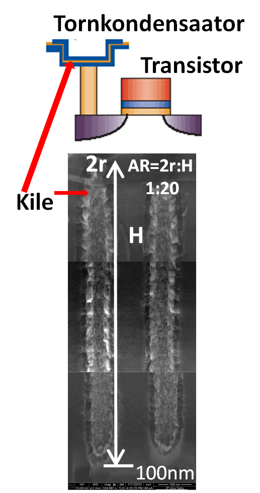 Peale ehitatud kondensaatori SEM pilt